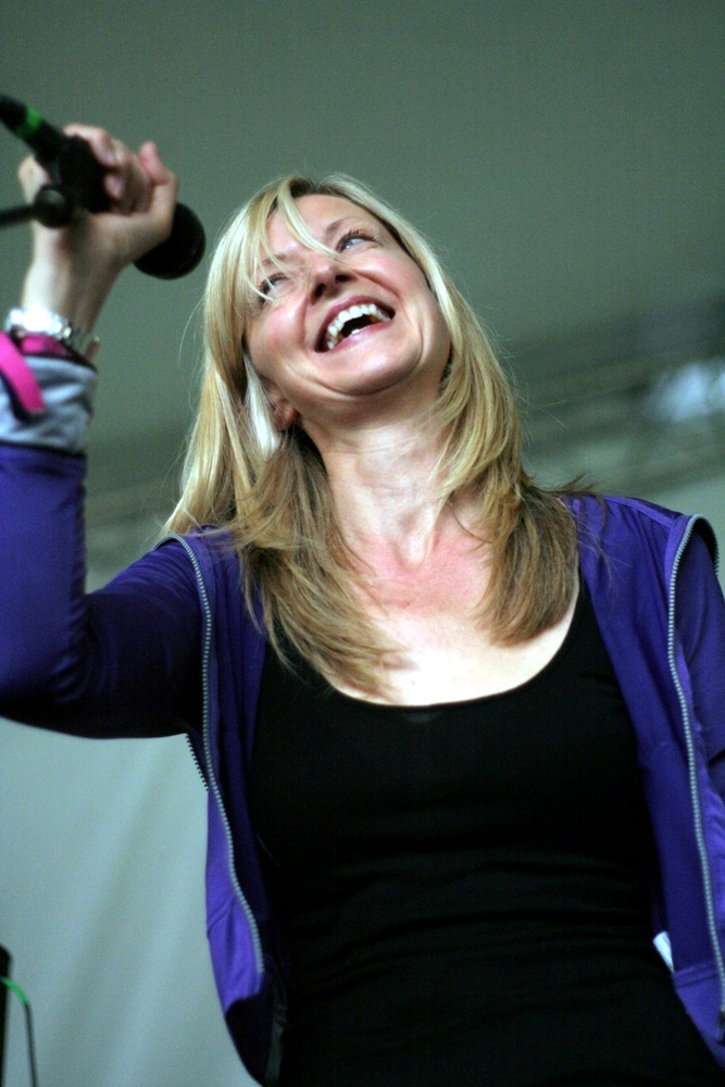 Mary Anne Hobbs at 2010 dB Festival. Levels adjusted.